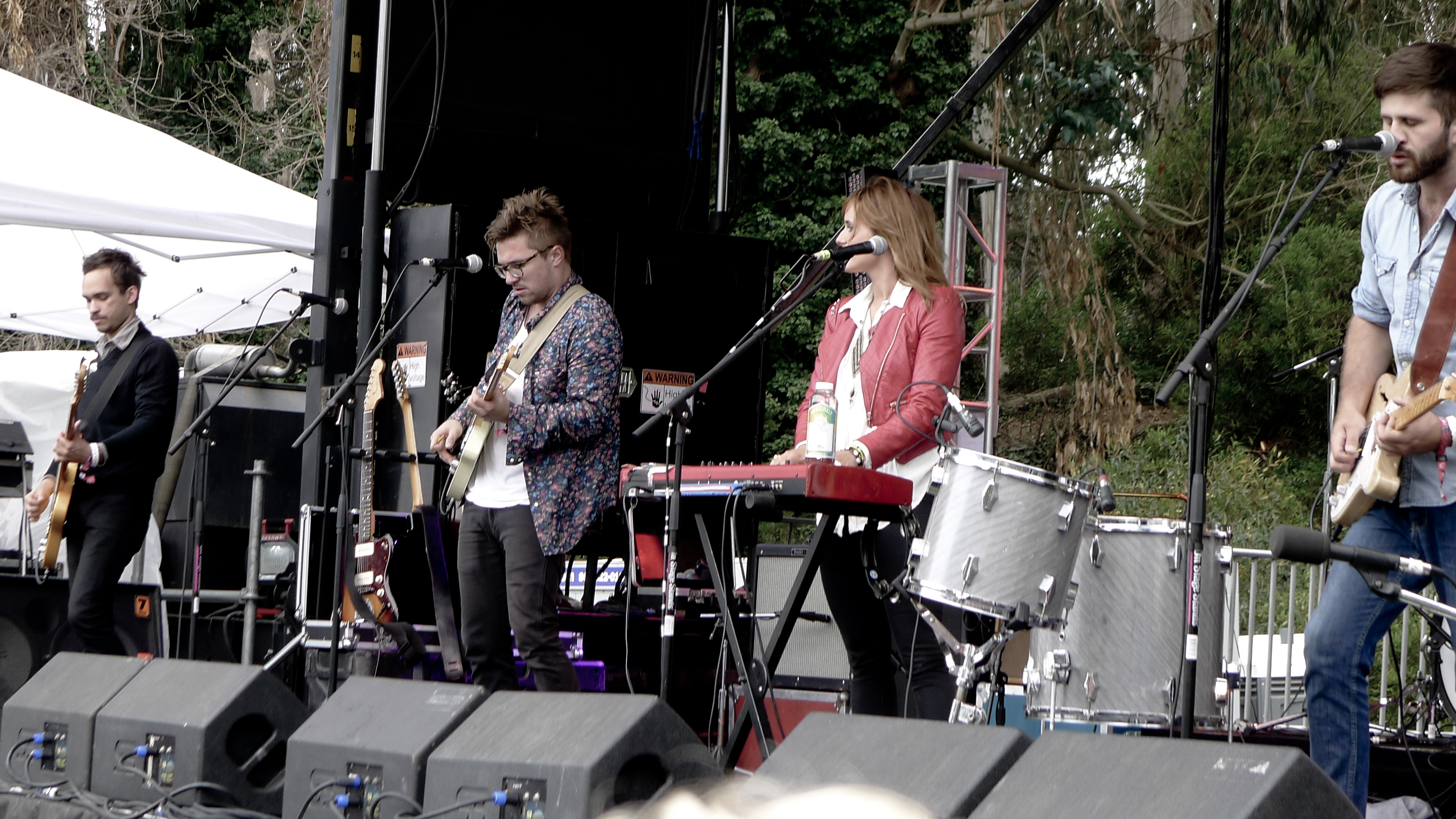 Kopecky Family Band performing at the Outsidelands Music Festival in 2013